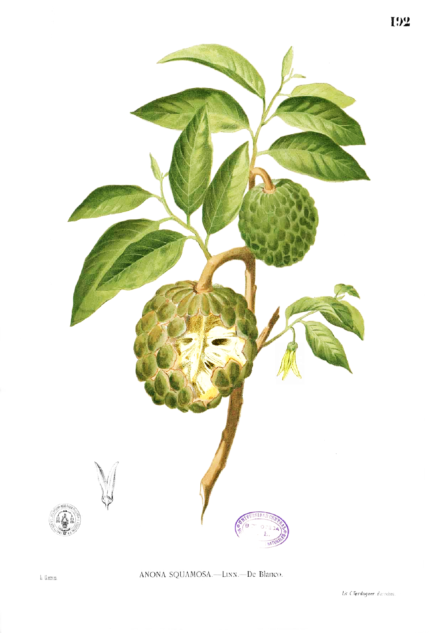 Plate from book